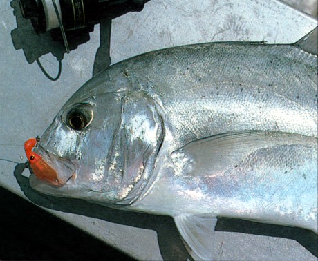 Scanned photo of 40 cm giant trevally taken by soft plastic lure off Cairns, Australia